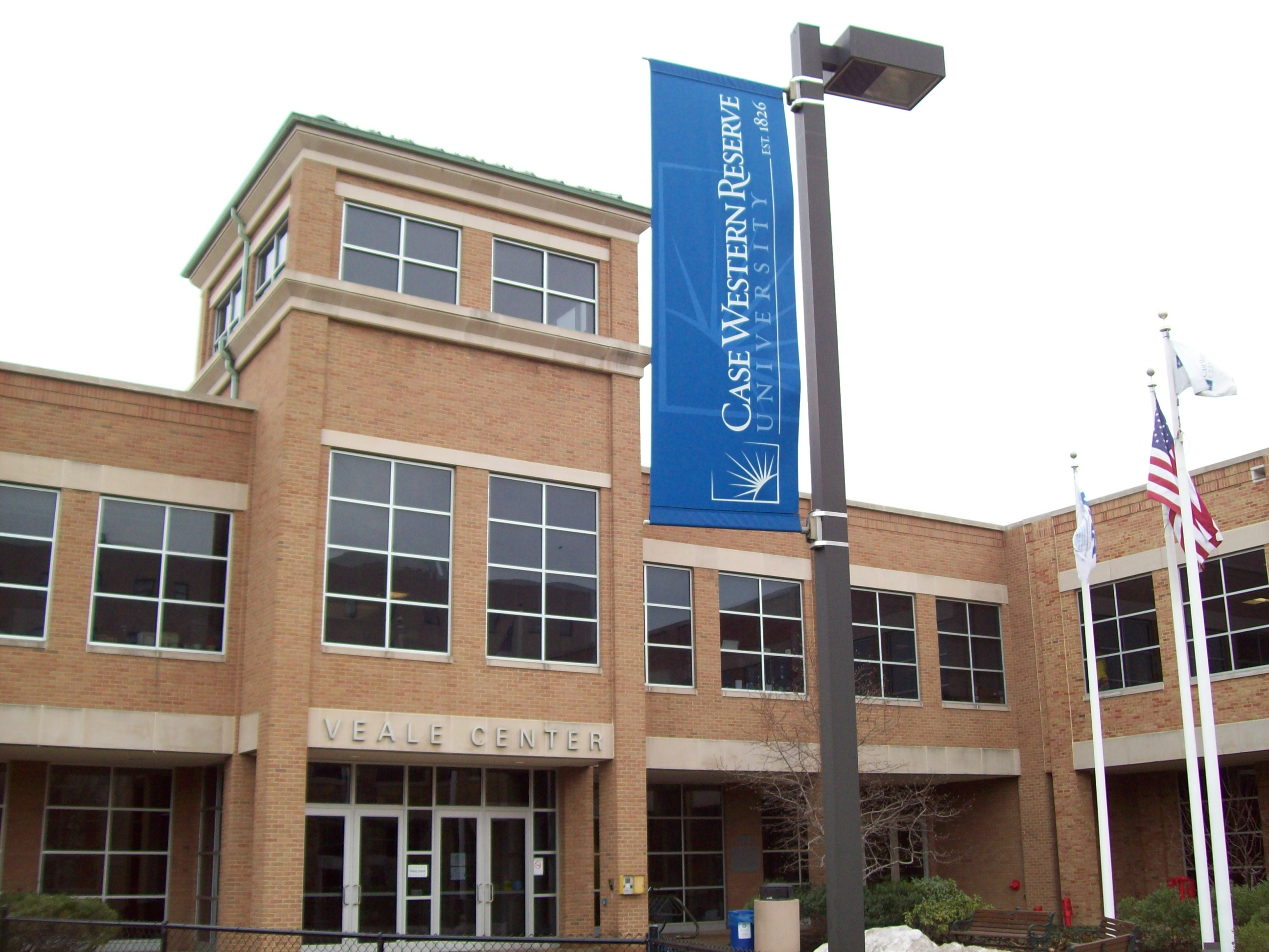 Photo of the Veale Athletic Center at Case Western Reserve University